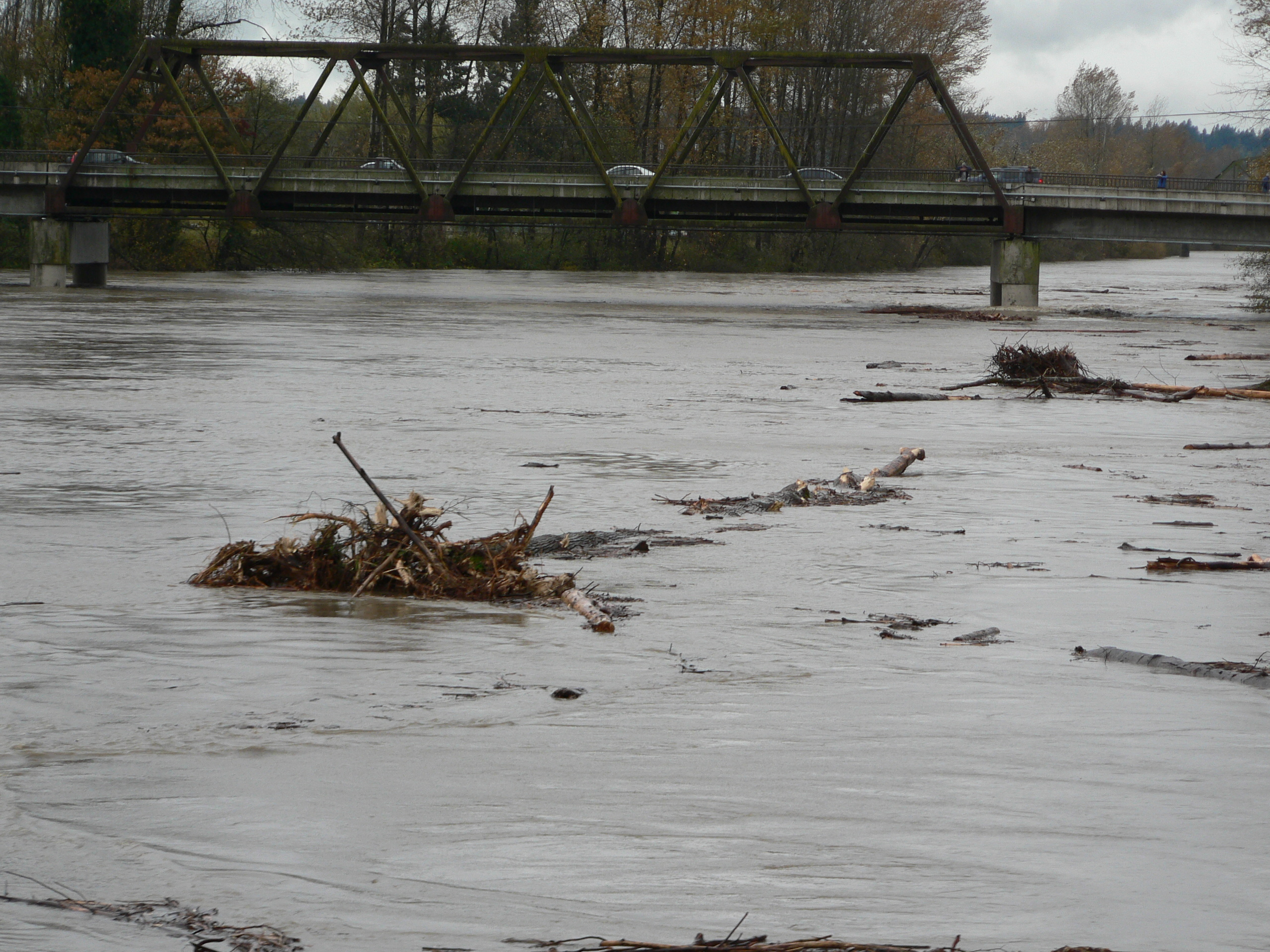 Snohomish River flood with woody debris, Airport Way Bridge; gage height (USGS 12155500) at 15:30, November 6, 2006, was 26.94 feet, flood stage is 25 feet; Pineapple Express